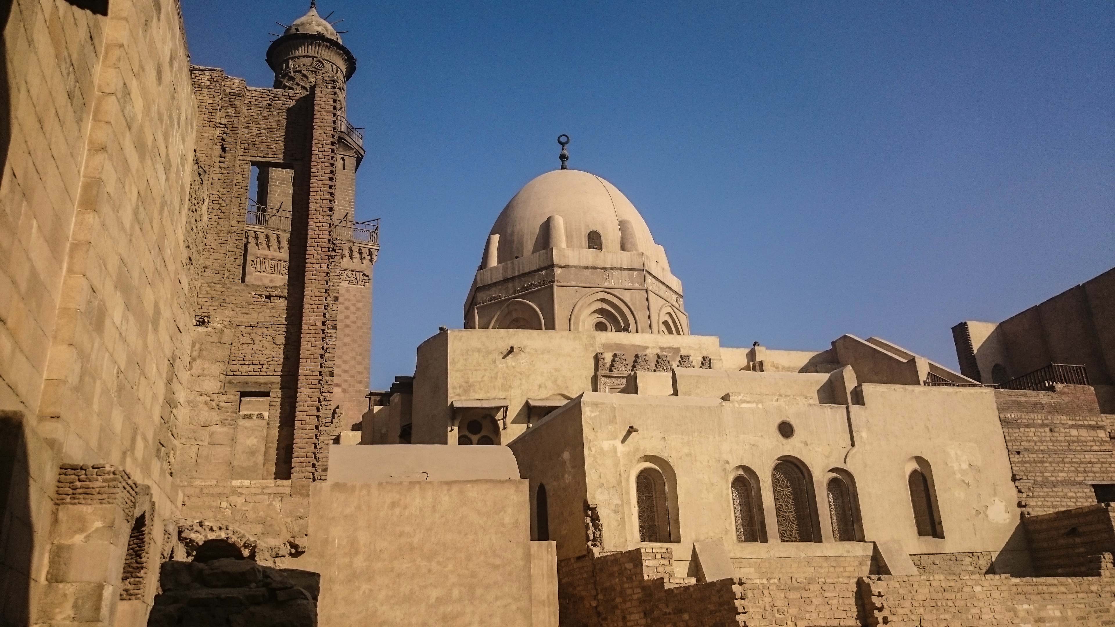 Qalawun mosque - Cairo - Egypt